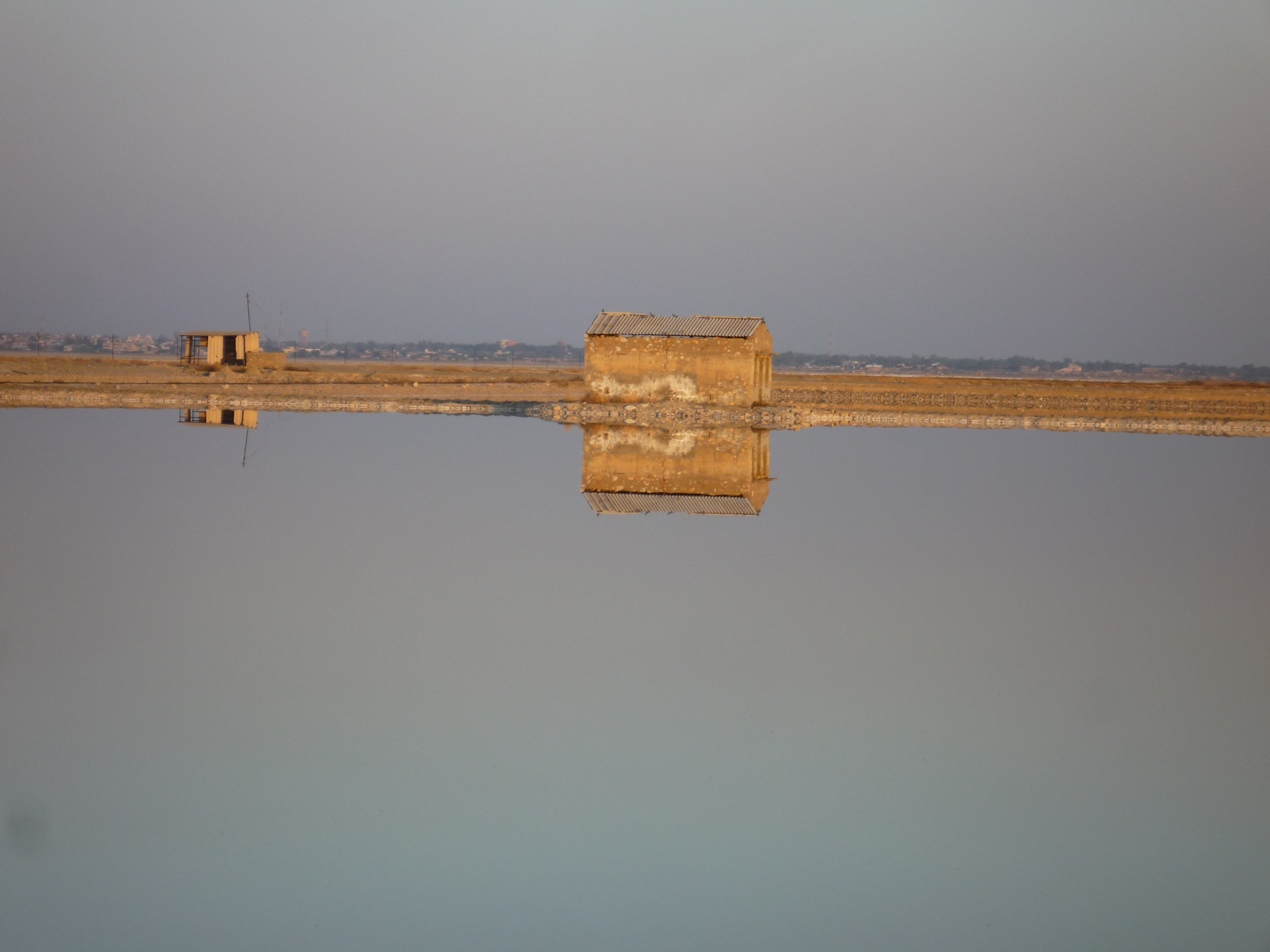 Excavated Site